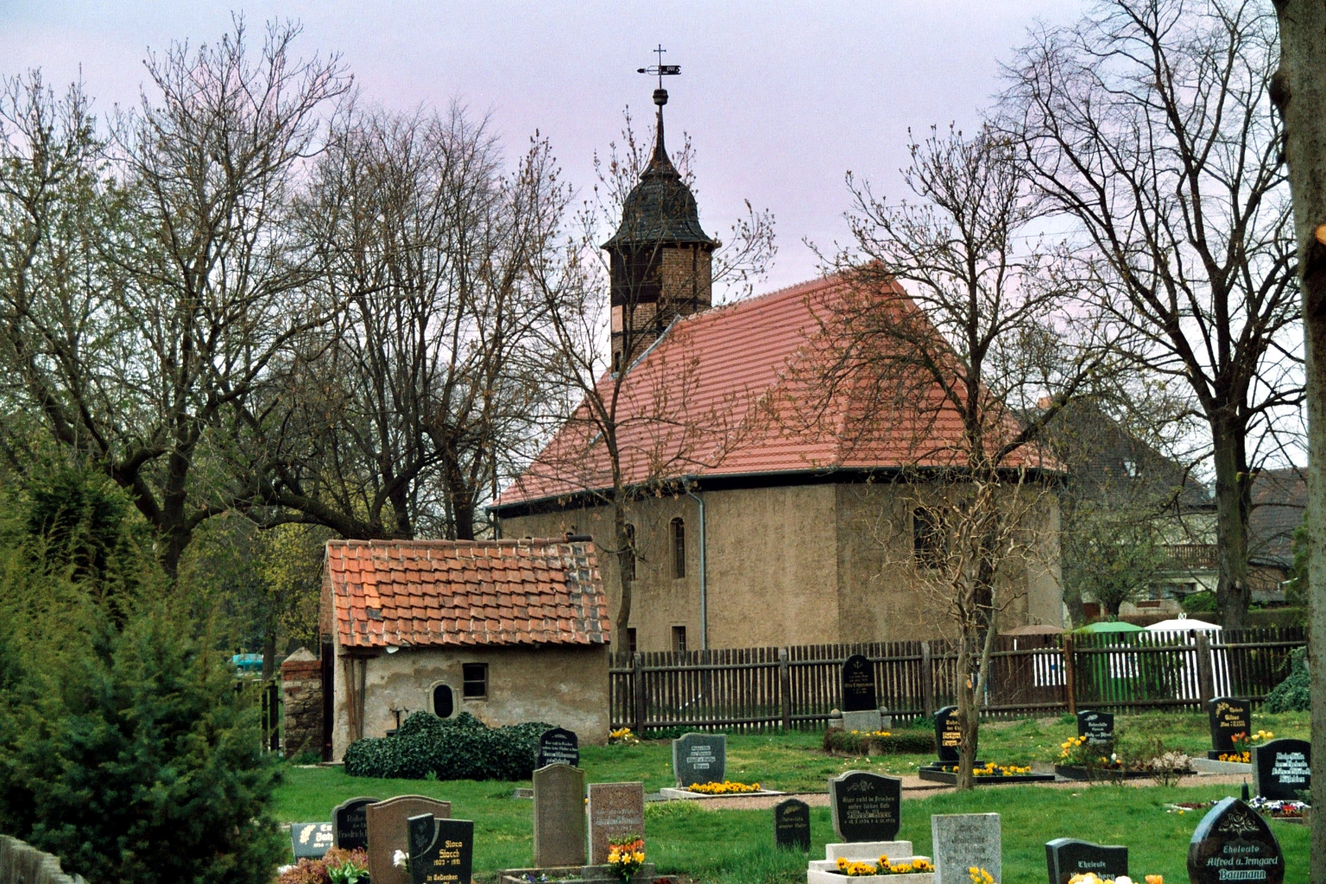 Friedrichsaue (Seeland, Sachsen-Anhalt), the village church